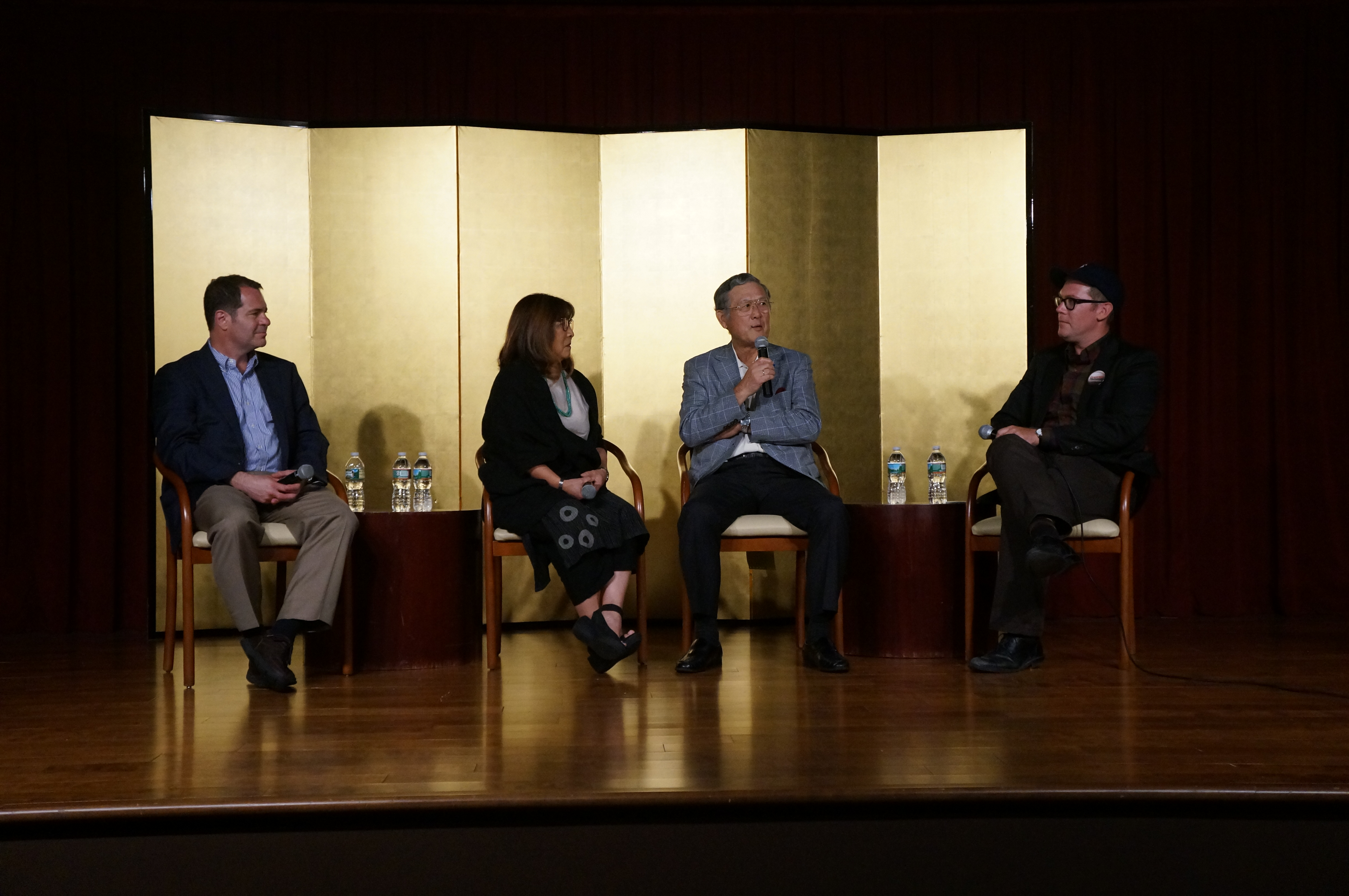 On July 20, 2018, at the Japan Information and Cultural Center, in Washington, DC, ̪l to Rˈ Robert Fitts, Yuriko Gamo Romer, Masanori "Mashi" Murakami, Adam ? , discussed U.S.-Japan baseball relations. In 1964-1965, Murakami was the first ever Japanese baseball player to play in the US Major Leagues.